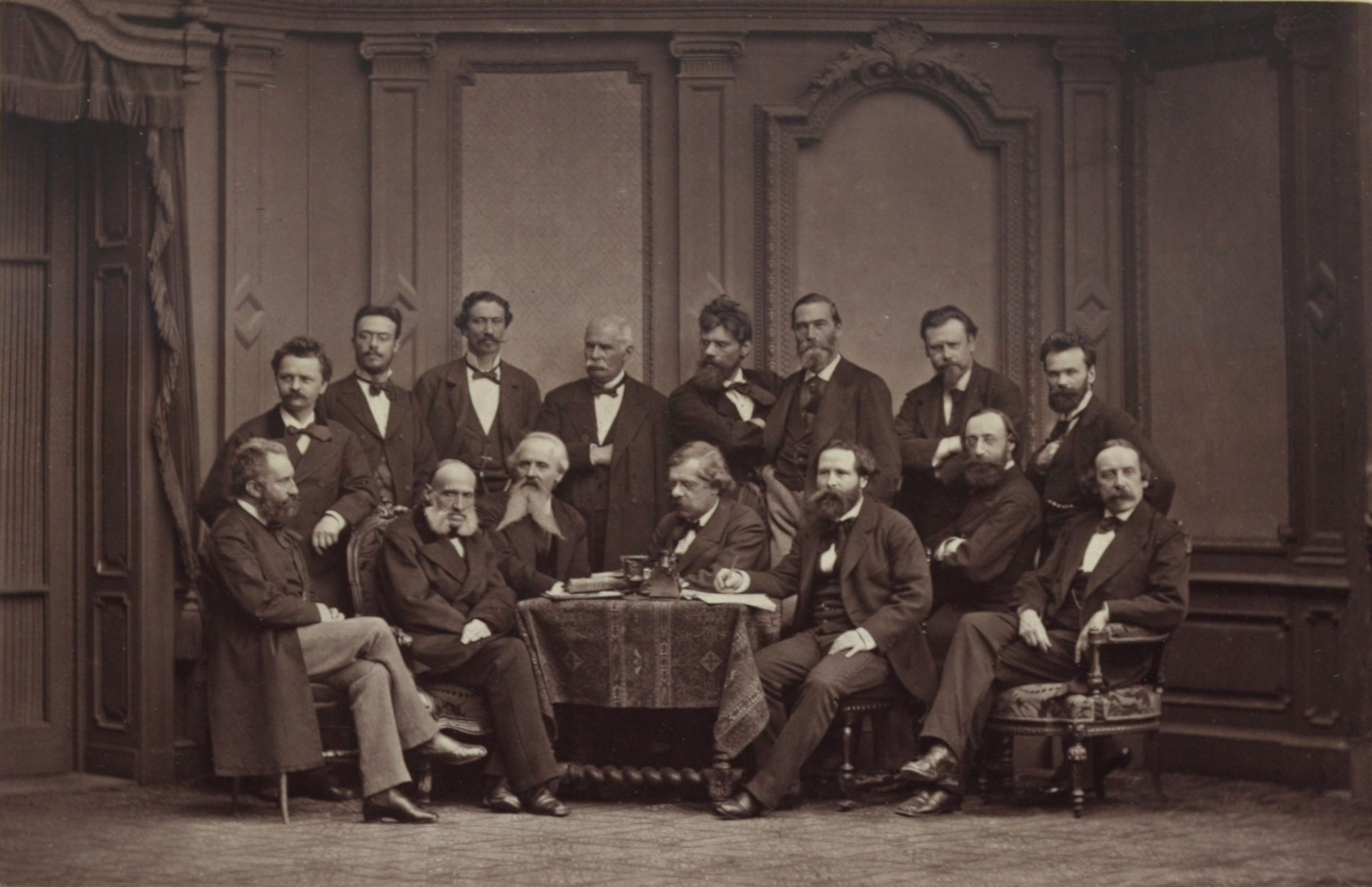 Committee of the Photographic Society in Vienna.